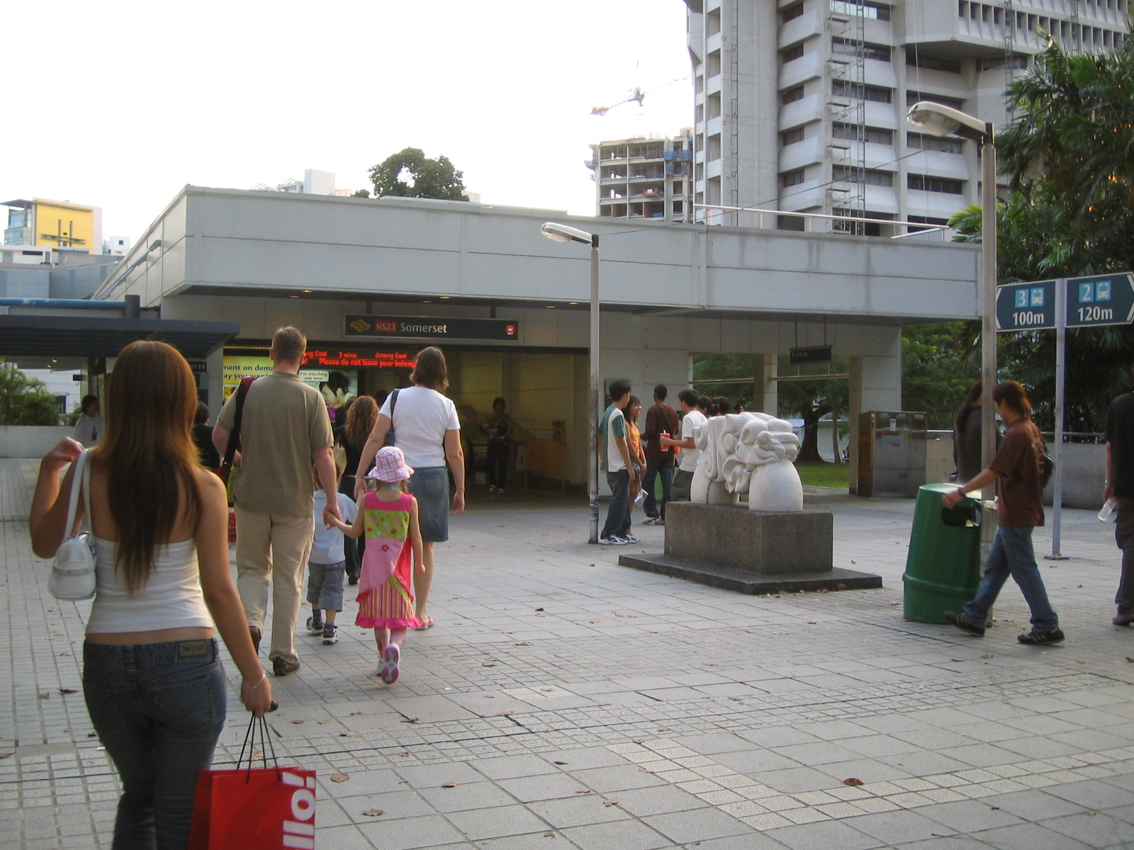 Entrance of Somerset MRT Station.